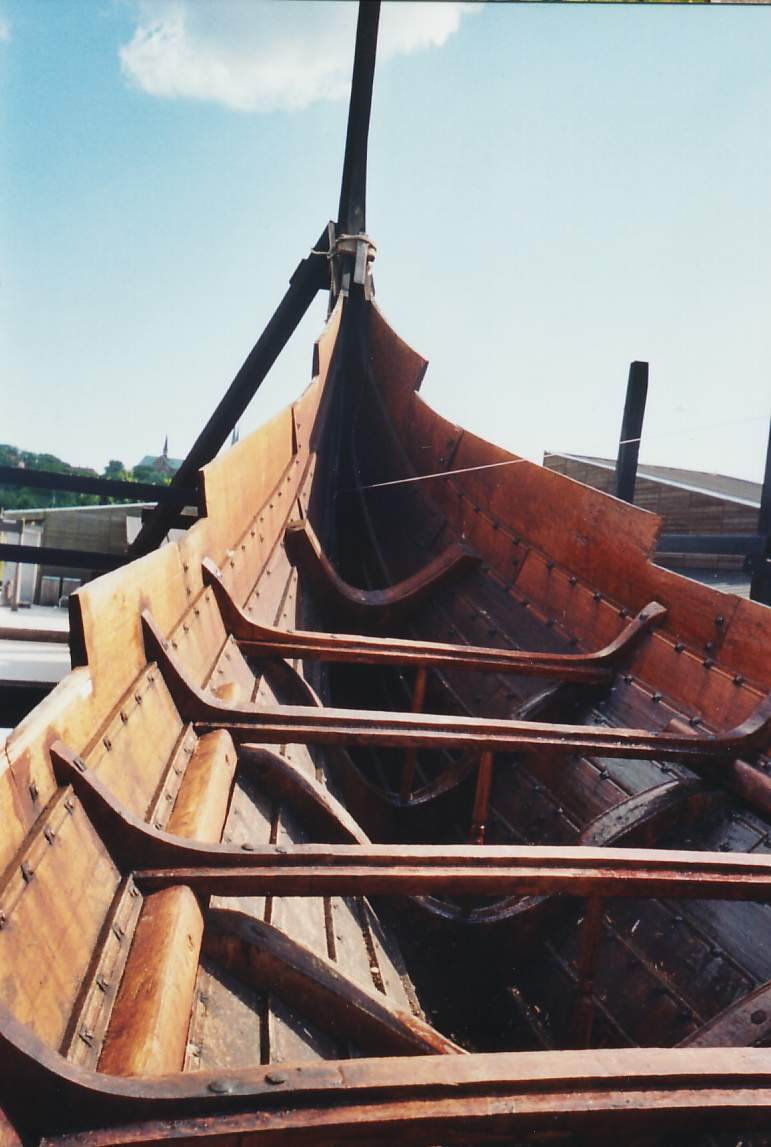 The reconstructed longship "Skuldelev 2" named "Havhingsten fra Glendalough" under construction at the shipyard in Roskilde in Denmark. Photo shows part of the inside of the ship.